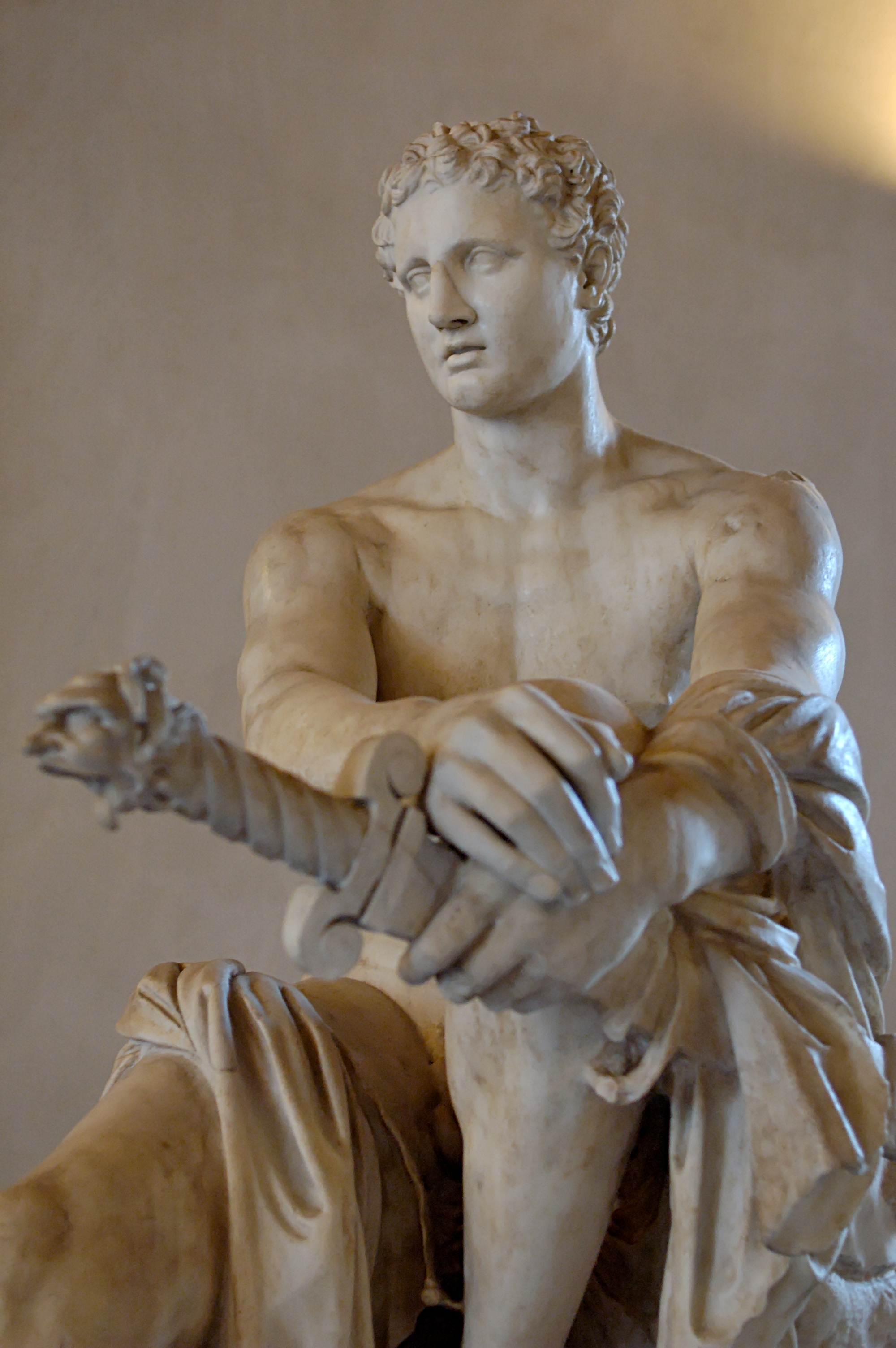 So-called “Ludovisi Ares”. Pentelic marble, Roman copy after a Greek original from ca. 320 BC. Some restorations in Cararra marble by Gianlorenzo Bernini, 1622.